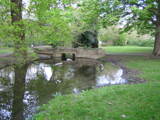 This footbridge is shown in front of a long stretch of very slowly moving shallow water of the stream or river (in all but rare times). It takes a path from Ferndale Road and the northern bulk of Woodthorpe Road from their tiny green corner of the park into the bulk of the park. The Ash flows lengthways through Fordbridge Park and demarcates Ashford and Staines at all times.